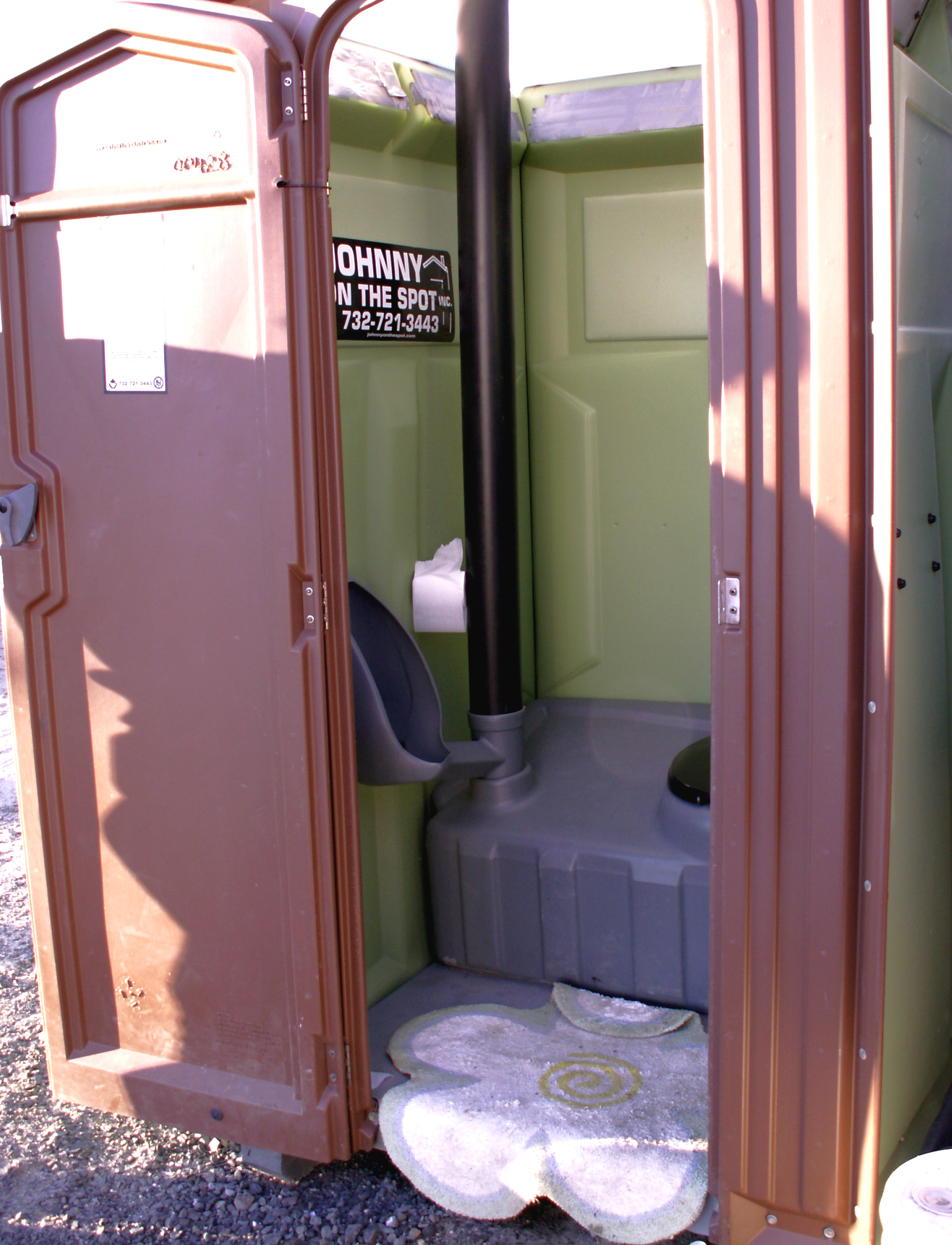 It's so much more comfortable with a happy flower rug!